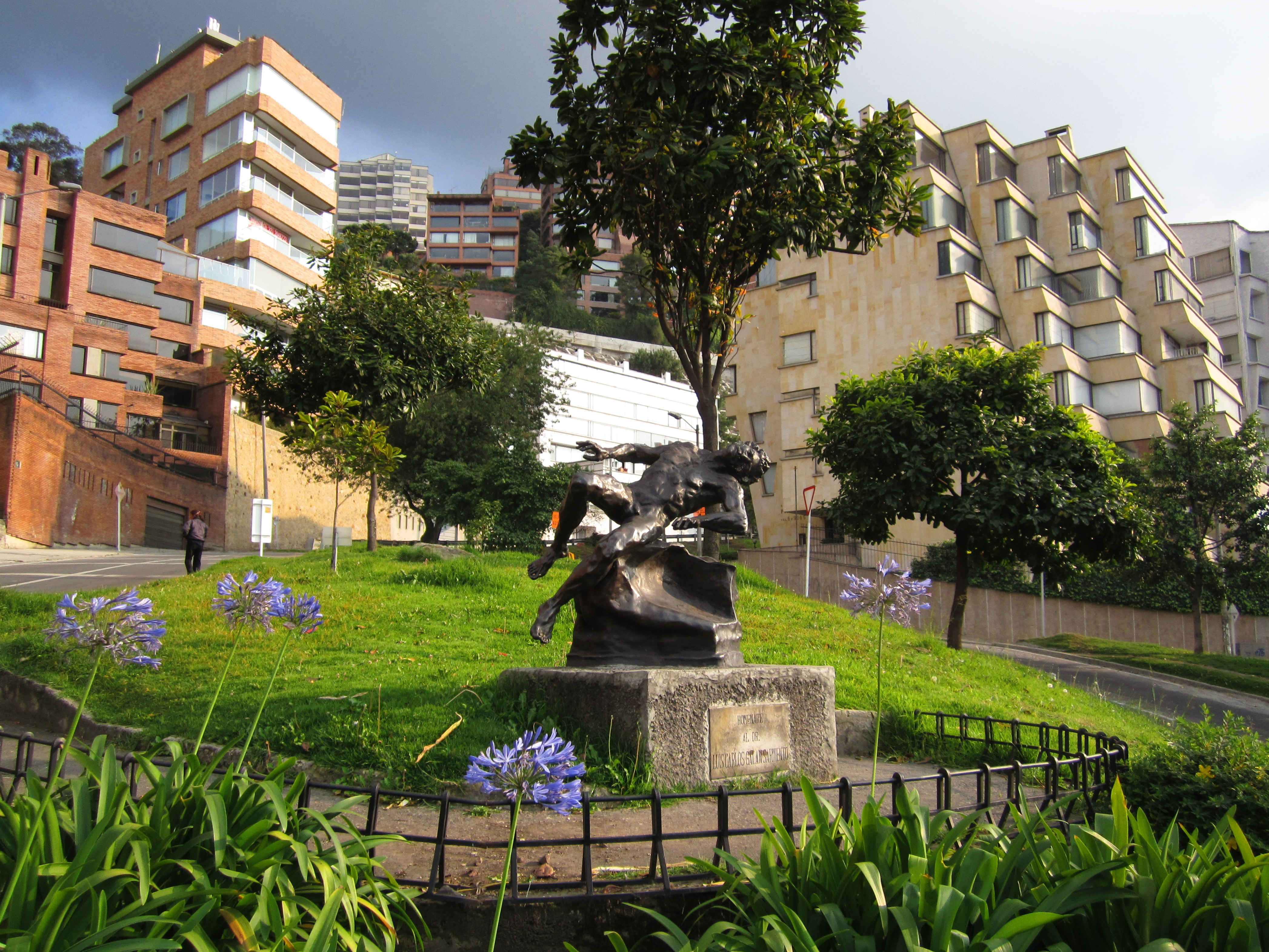 Bogotá monumento Homenaje a Galán en la av. Circunvalar con calle 92 y carrera 7.